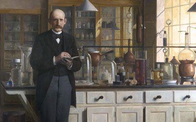 Danish chemist Johan Kjeldahl (1849-1900) painted by Otto Haslund (1842-1917); Original color painting located in the boardroom of the Carlsberg Laboratory in Copenhagen